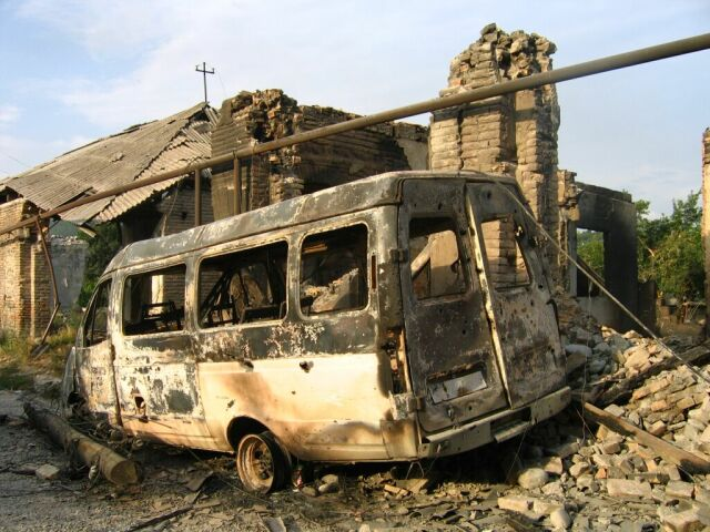 August 2008. Tskhinval after Georgian artillery bombardment(1986-1993 Ford transit ?)